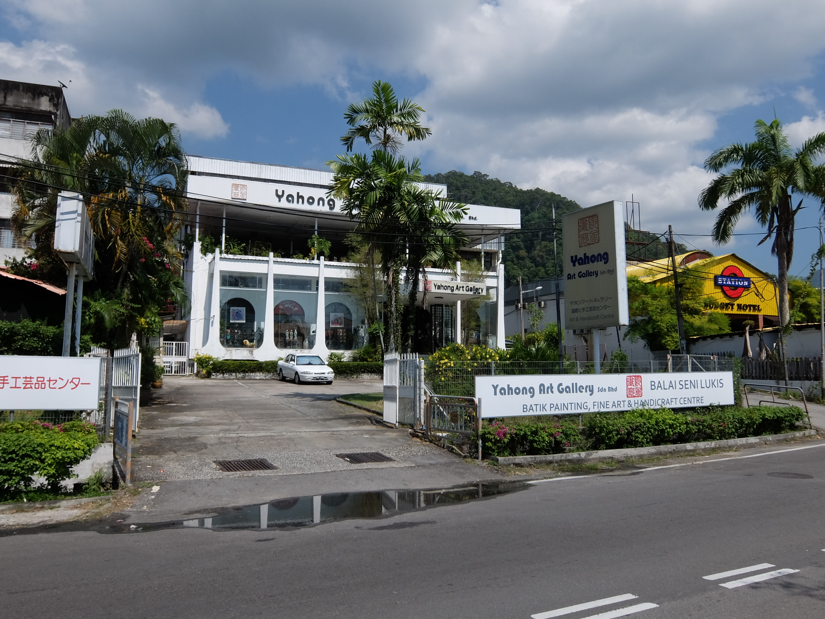 Yahong Art Gallery, Batu Feringghi, Northeast Island, Penang, Malaysia